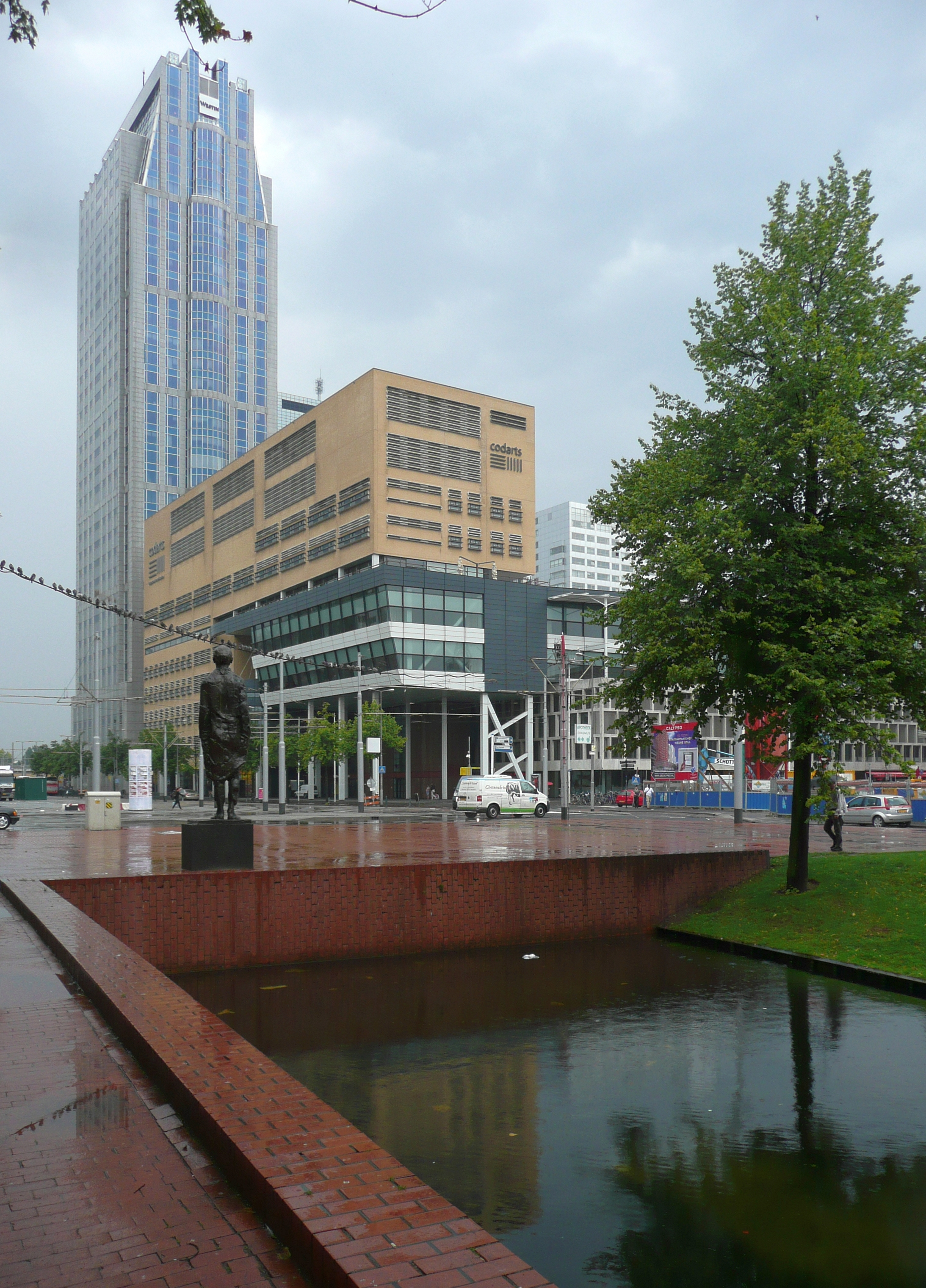 Codarts Highschool with Western Hotel in the background